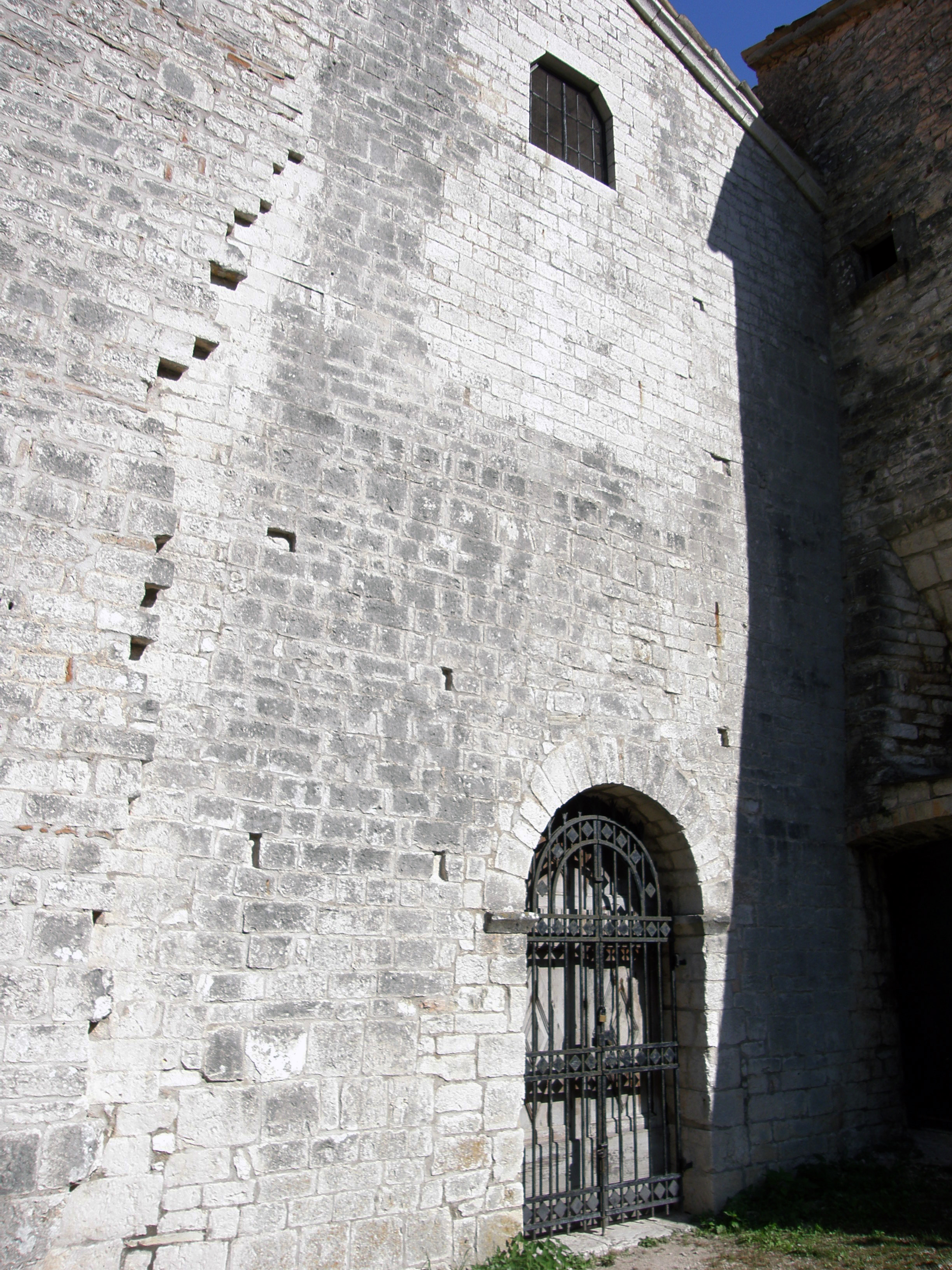 Scheggia, Italy - Monte Cucco, Abbazia di Santa Maria di Sitria